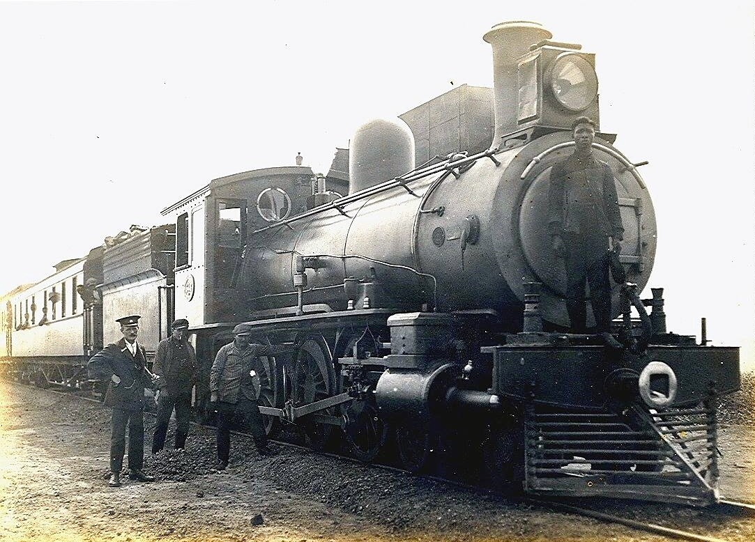 Class 6J 4-6-0, with conductor Fred Hart, unknown stoker, driver Jim-Boy Barlow and unknown cleaner